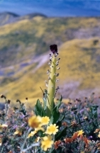 Caulanthus inflatus or deset candle flower found in the Mojave desert of North America.